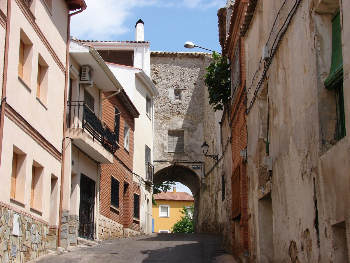 Arco del puntio (Illana - Guadalajara)